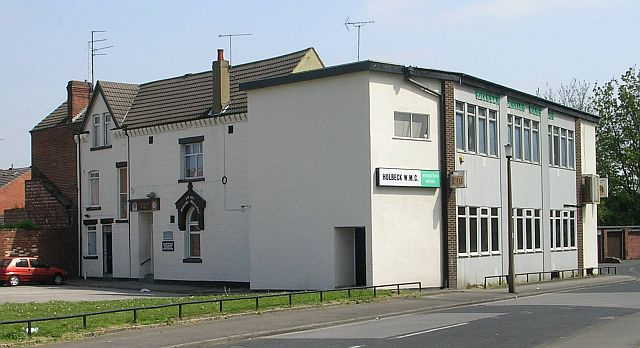 Holbeck WMC